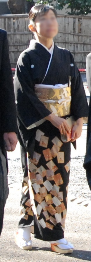 Kuro tomesode (black tomesode) worn at a wedding ceremony. Face blurred for privacy. (黑留袖)